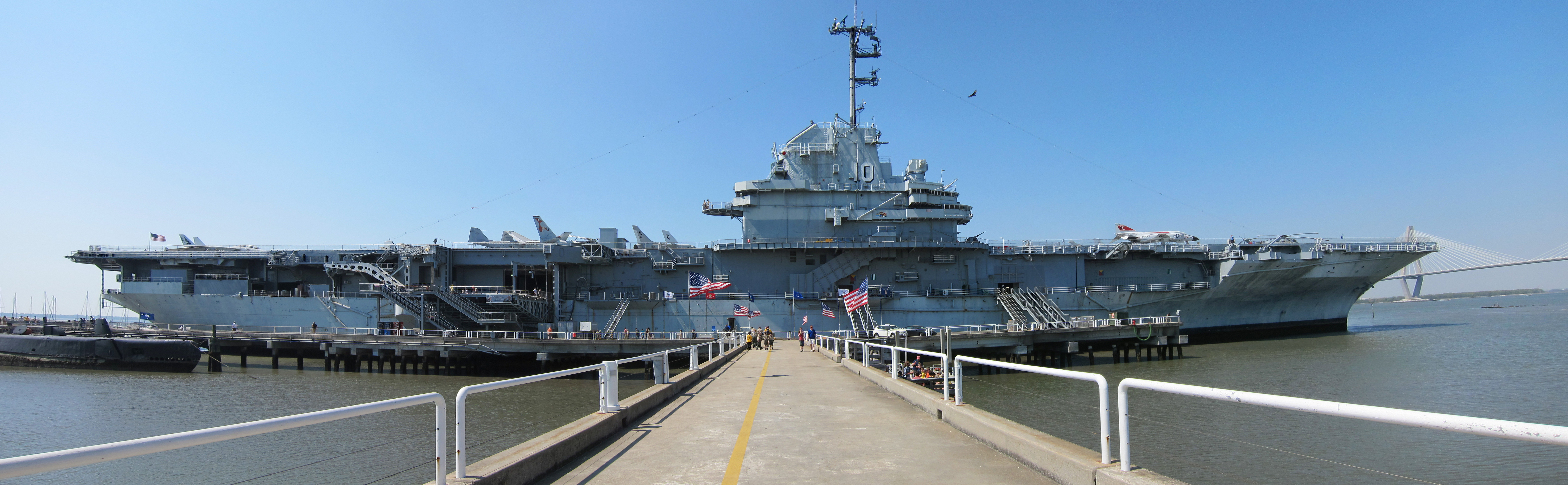 A panoramic image of the USS Yorktown (CVS-10) as she sits at Patriots Point in Mount Pleasant, South Carolina (USA) in March 2011. The stern of the USS Clamagore (SS-343) can be seen in the lower left, while the Arthur Ravenel Jr. Bridge can be seen crossing the Cooper River on the right.